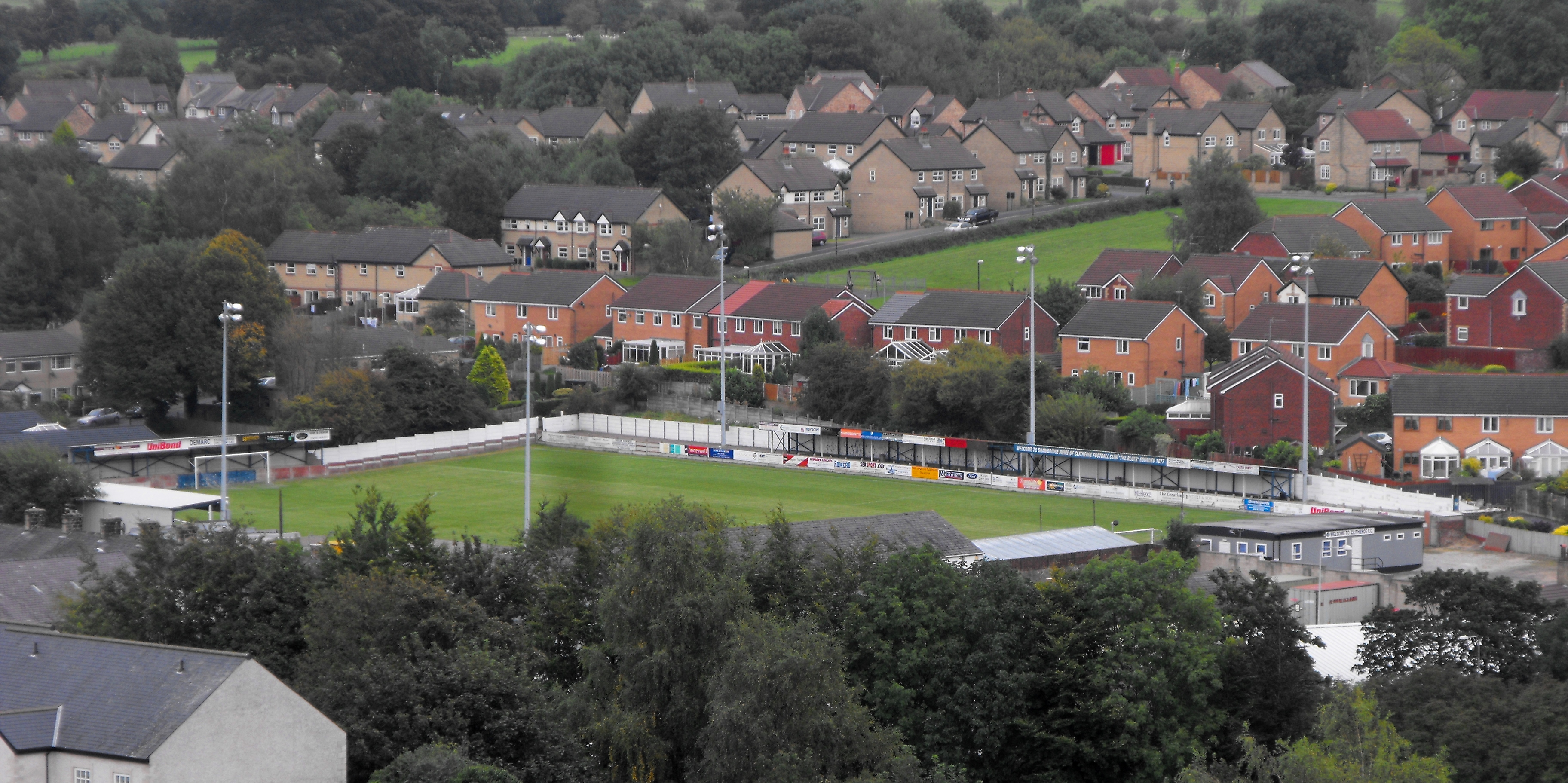 A view of the home ground of Clitheroe FC in 2009 as seen from Clitheroe Castle